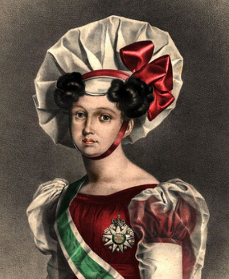 Infanta Isabel Maria de Portugal